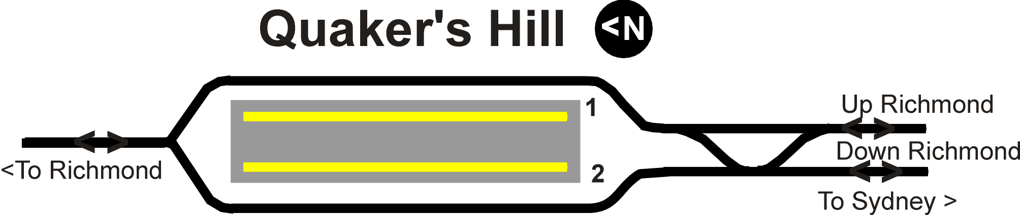 Track arrangemet at Quakers Hill railway station, Sydney